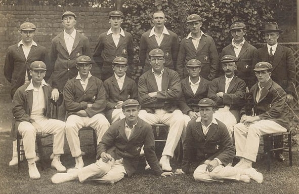 Image of 1920 Australian cricket team Back row: Warren Bardsley, Jack Ryder, Stork Hendry, Jack Gregory, Edgar Mayne, Tommy Andrews, Sydney Smith (manager) Sitting: Arthur Mailey, Edward McDonald, Herbie Collins, Warwick Armstrong (captain), Charlie Macartney, Hanson 'Sammy' Carter, Johnny Taylor. Front: Clarence Pellew and Bill Oldfield